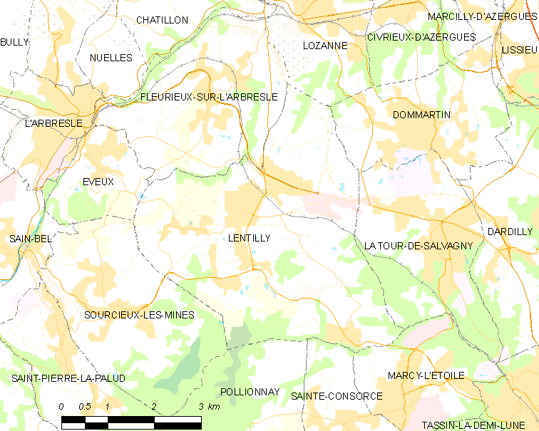 Map of French municipality